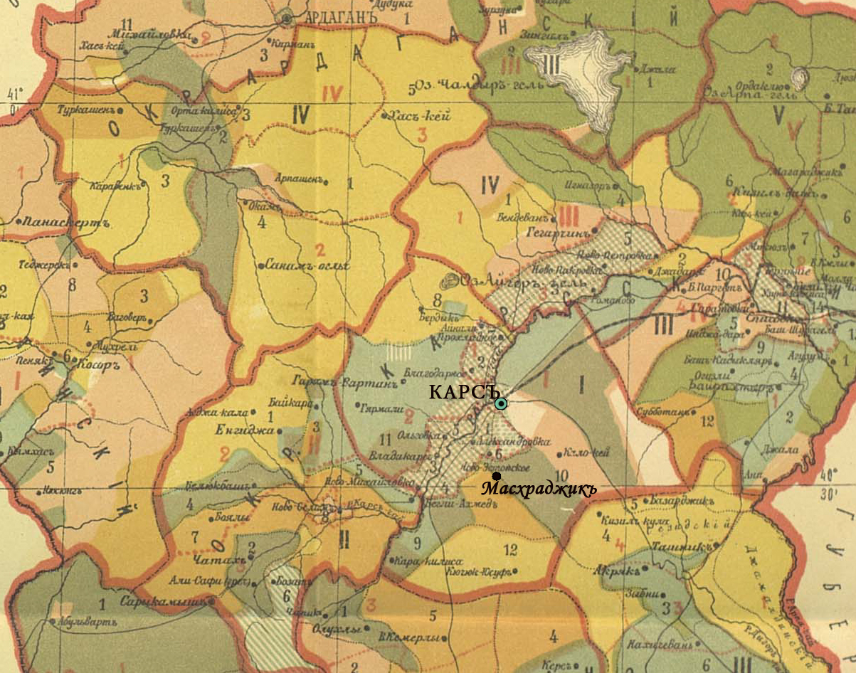 Magaradzhik on the Map Kars region, printed in 1890s in Tiflis in R. Shahbazyants's Lithographs